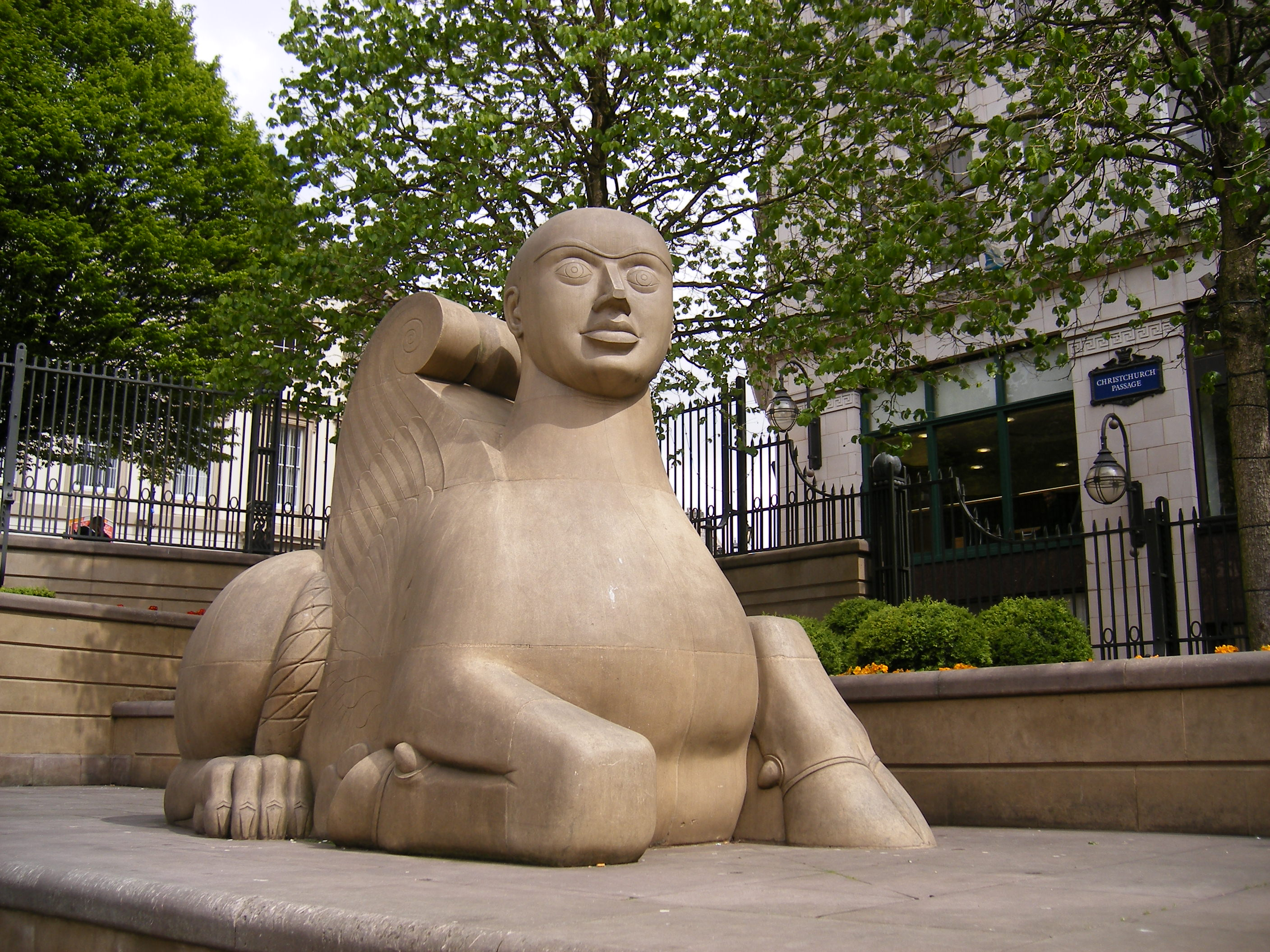 One of the two protectors of Victoria Square. This one is near New St and Colmore Row. It is in front of Christchurch Passage (I recently got shots from behind those bars of the Frankfurt Christmas Market). The two sphinx-like Guardians (Mistry suggests a 1st Century Indian source). To each side at the top, an Object/Variation, a tapering pillar suggesting lighthouses or pyramids. From Pevsner Architectural Guides: Birmingham by Andy Foster